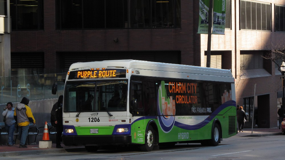 Charm City Circulator 2011 Orion VII 3G Hybrid #1206 on the Purple Route.